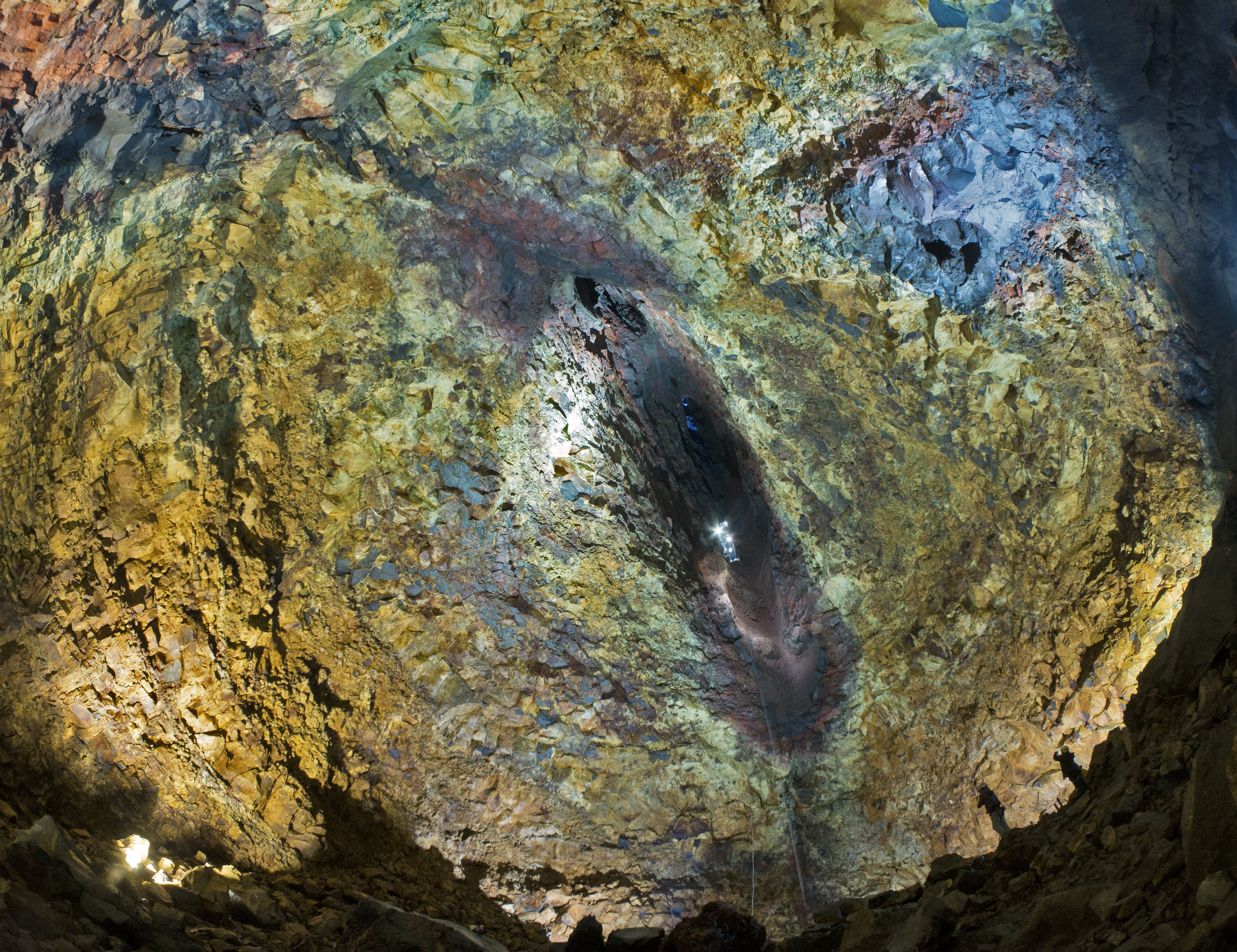 This is a magma chamber inside a volcano in Iceland called lava called Thrihnukagigur. An open conduit leads 120 m to the surface and visitors are lowered in a cable car.